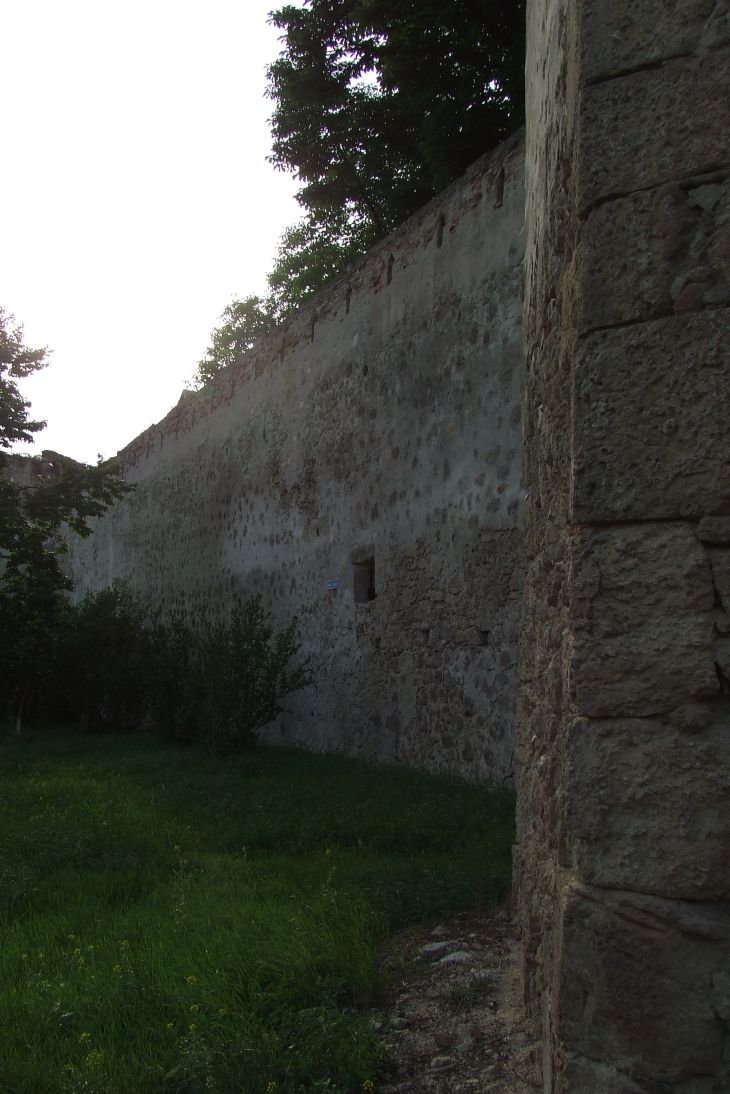 Aiud Citadel, Romania